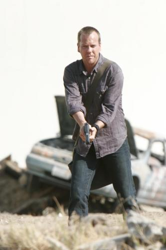 24: The clock has already started ticking for the thrilling and unpredictable fifth season of 24. "Day 5" will start with a four-hour, two-night season premiere on Sunday, Jan. 15 and Monday, Jan. 16 (8:00-10:00 PM ET/PT) on FOX. Kiefer Sutherland as Jack Bauer. ™©2005 Fox Broadcasting Co. Cr: Isabella Vosmikova/FOX.